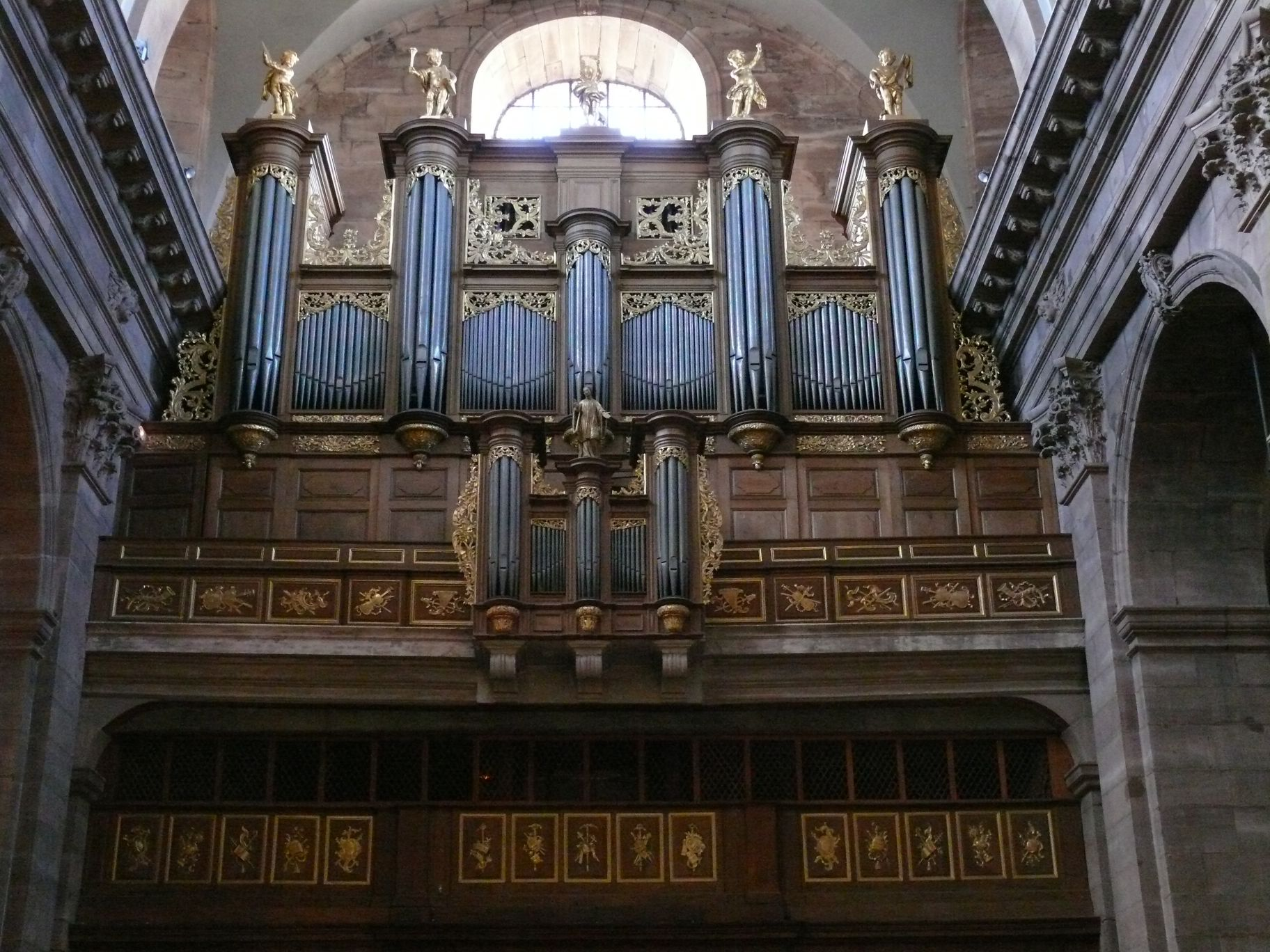 Saint-Christophe's cathedral in Belfort (Franche-Comté, France).